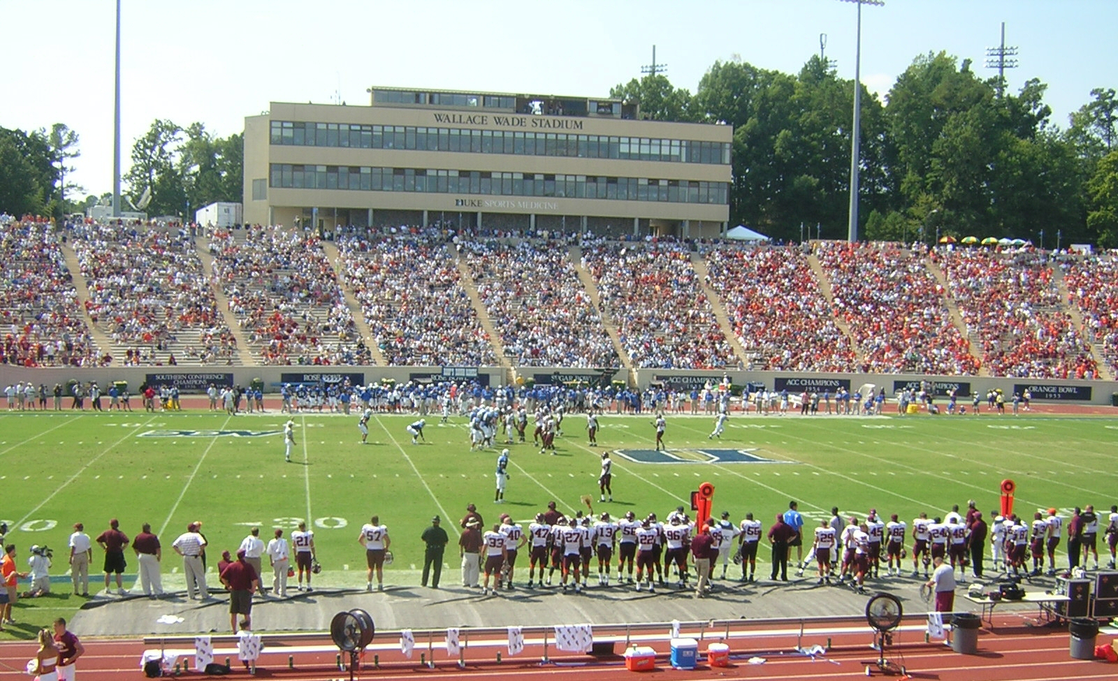 The 2005 Virginia Tech Hokies football team (en) faces Duke University at Wallace Wade Stadium.